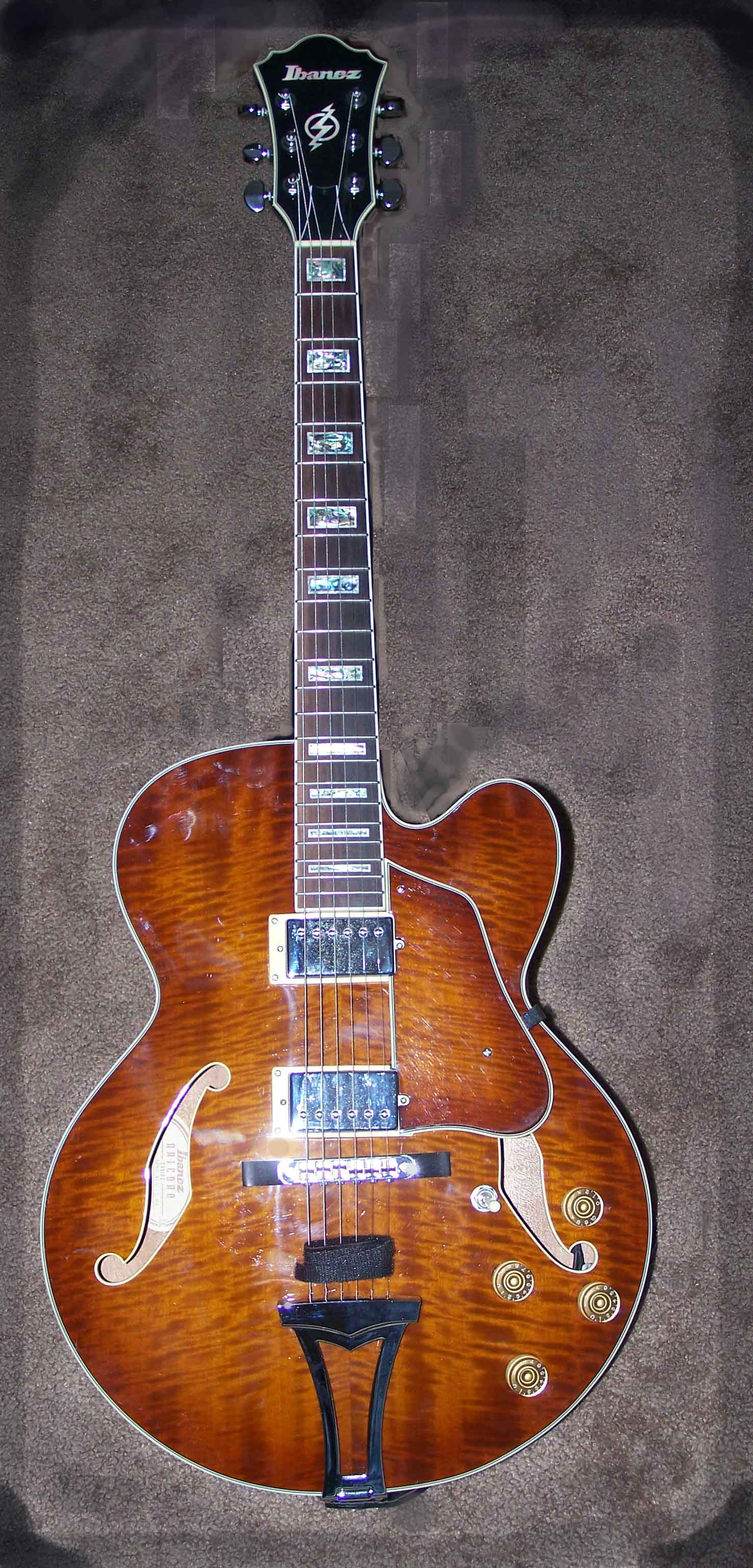 Ibanez ArtcoreAF85 hollow bodied electric guitar.